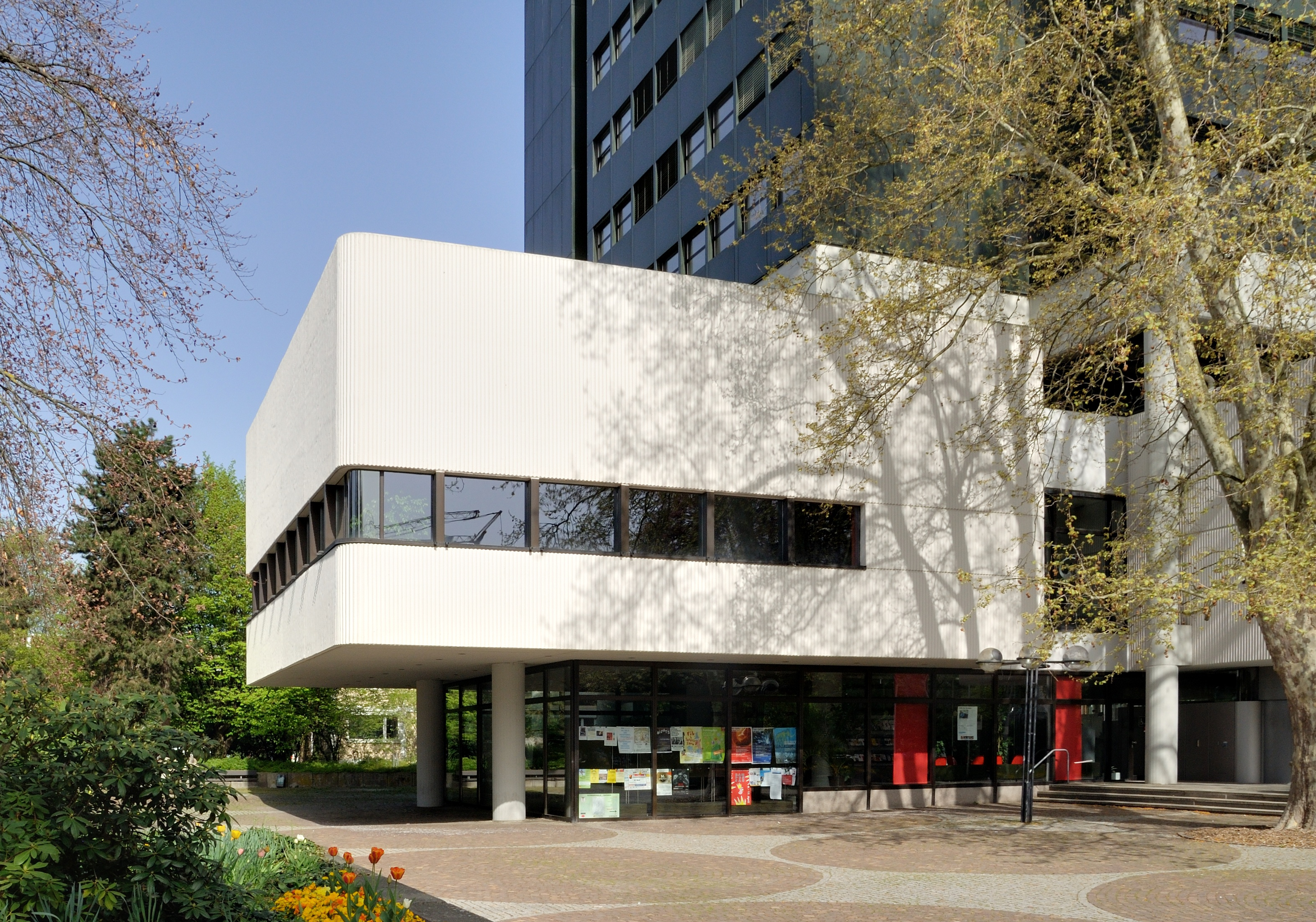 Lörrach: (New) City Hall, plenary hall